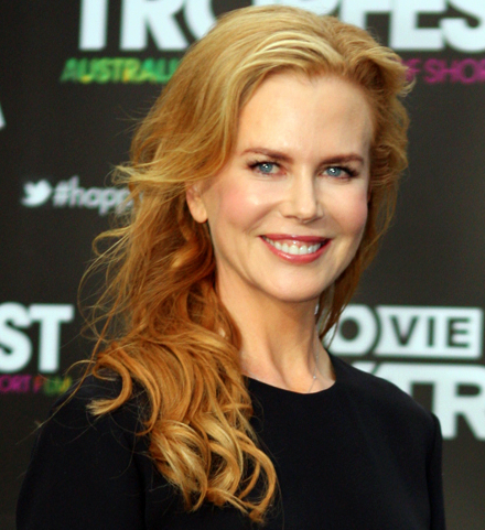 Nicole Kidman at the Movie Extra Tropfest 2012.